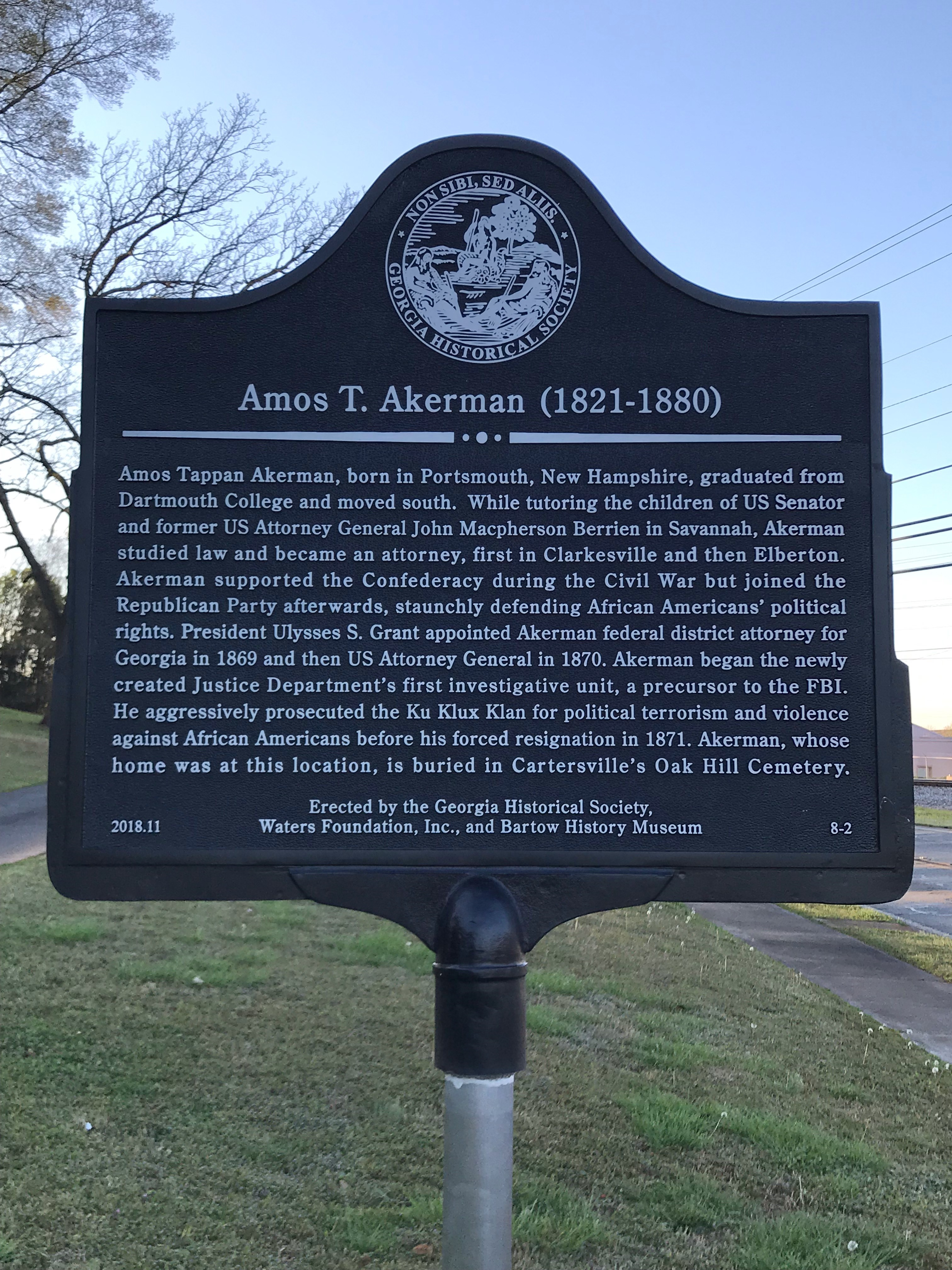 Amos T. Akerman historical marker, erected in Bartow County, Georgia in 2019 by the Georgia Historical Society, Waters Foundation, Inc., and Bartow History Museum.